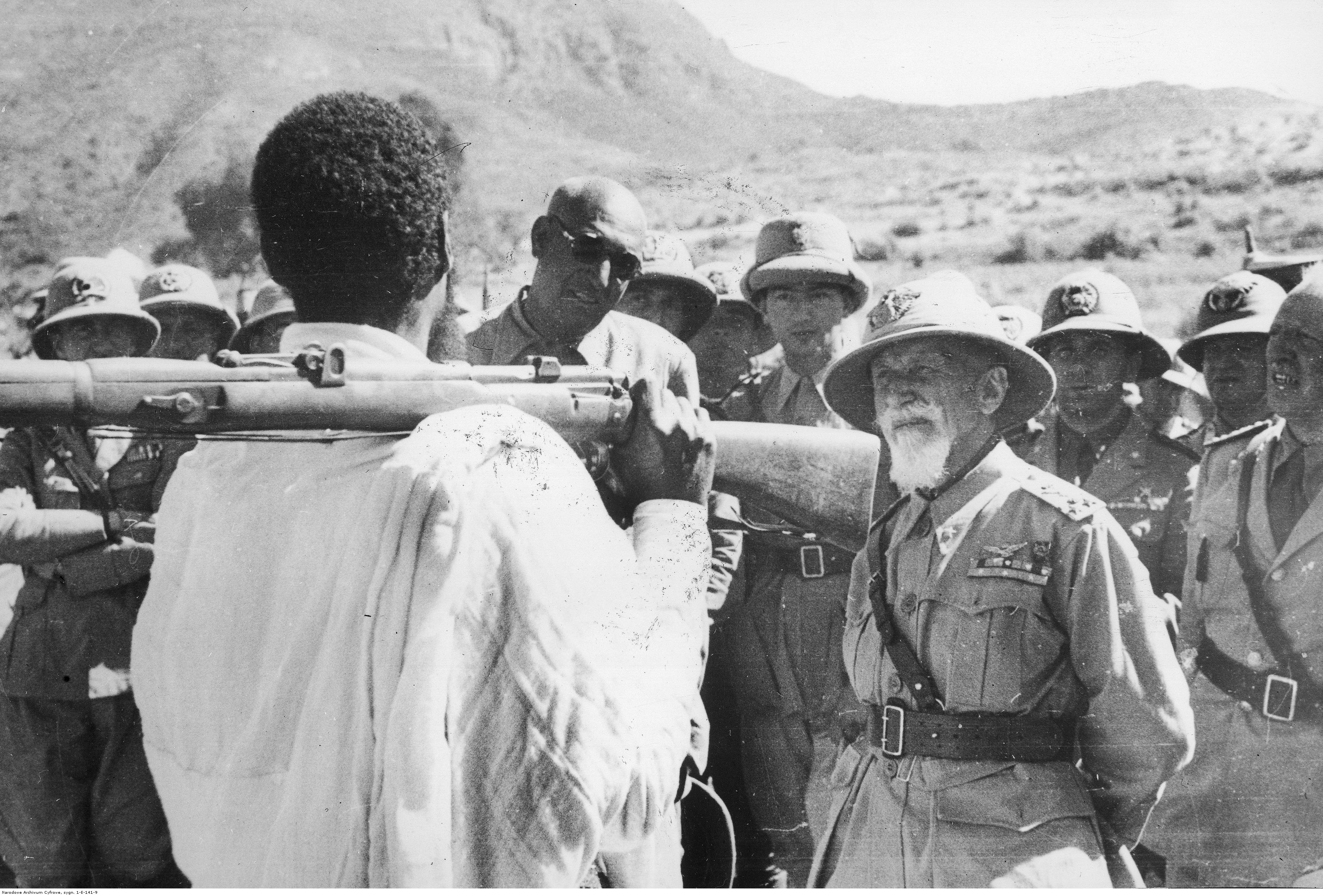 Marshal Emilio de Bono interrogates Abyssinians who, along with Haile Selassie Gugsa, left the Ethiopian army and switched to the Italian side.